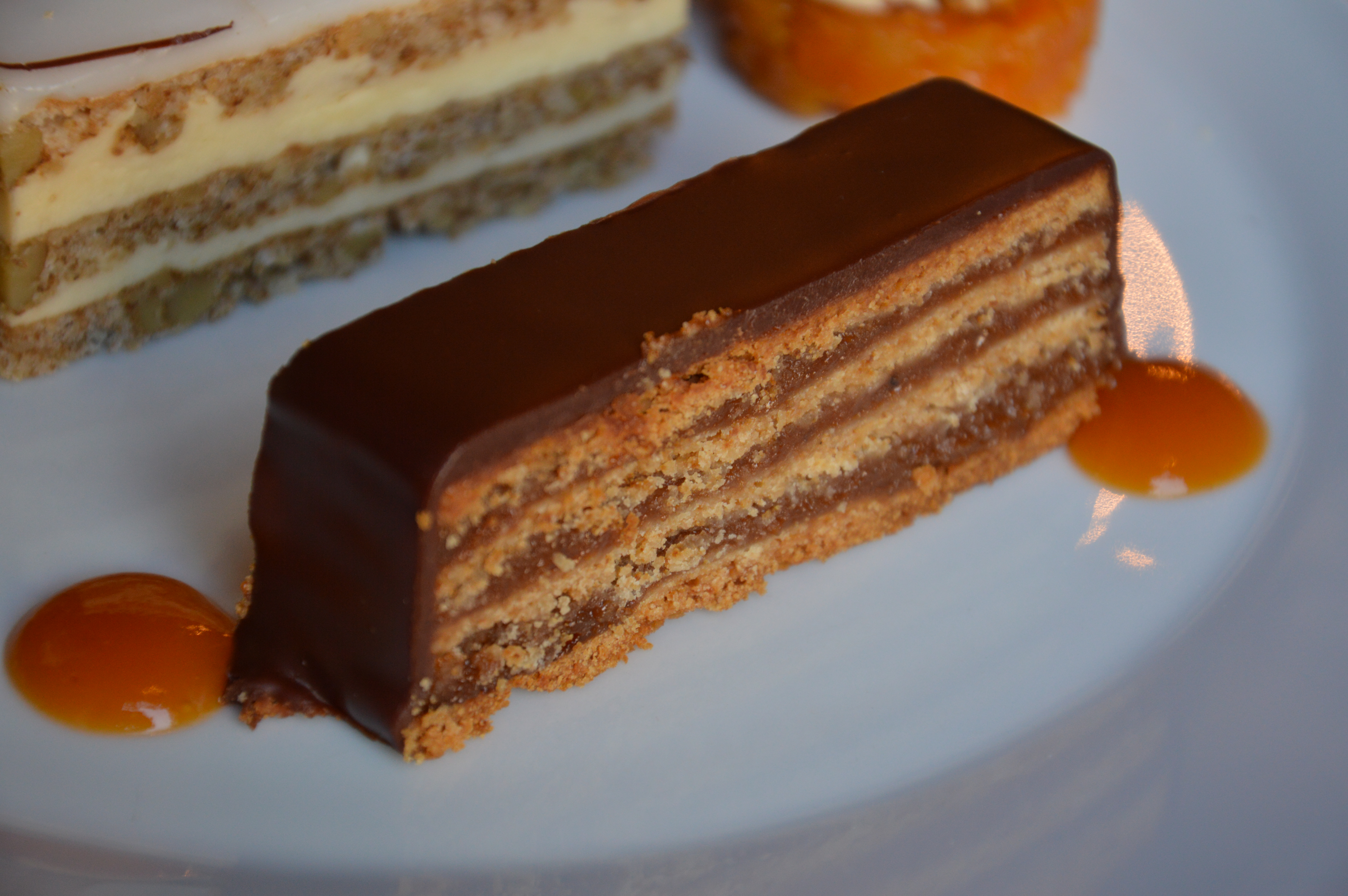 A slice of Zserbó cake, as served at Café Gerbeaud in Vörösmarty tér, Budapest District V, Hungary.